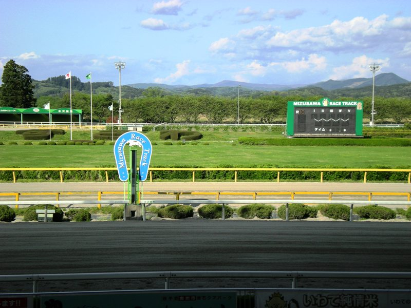 Mizusawa Racecourse